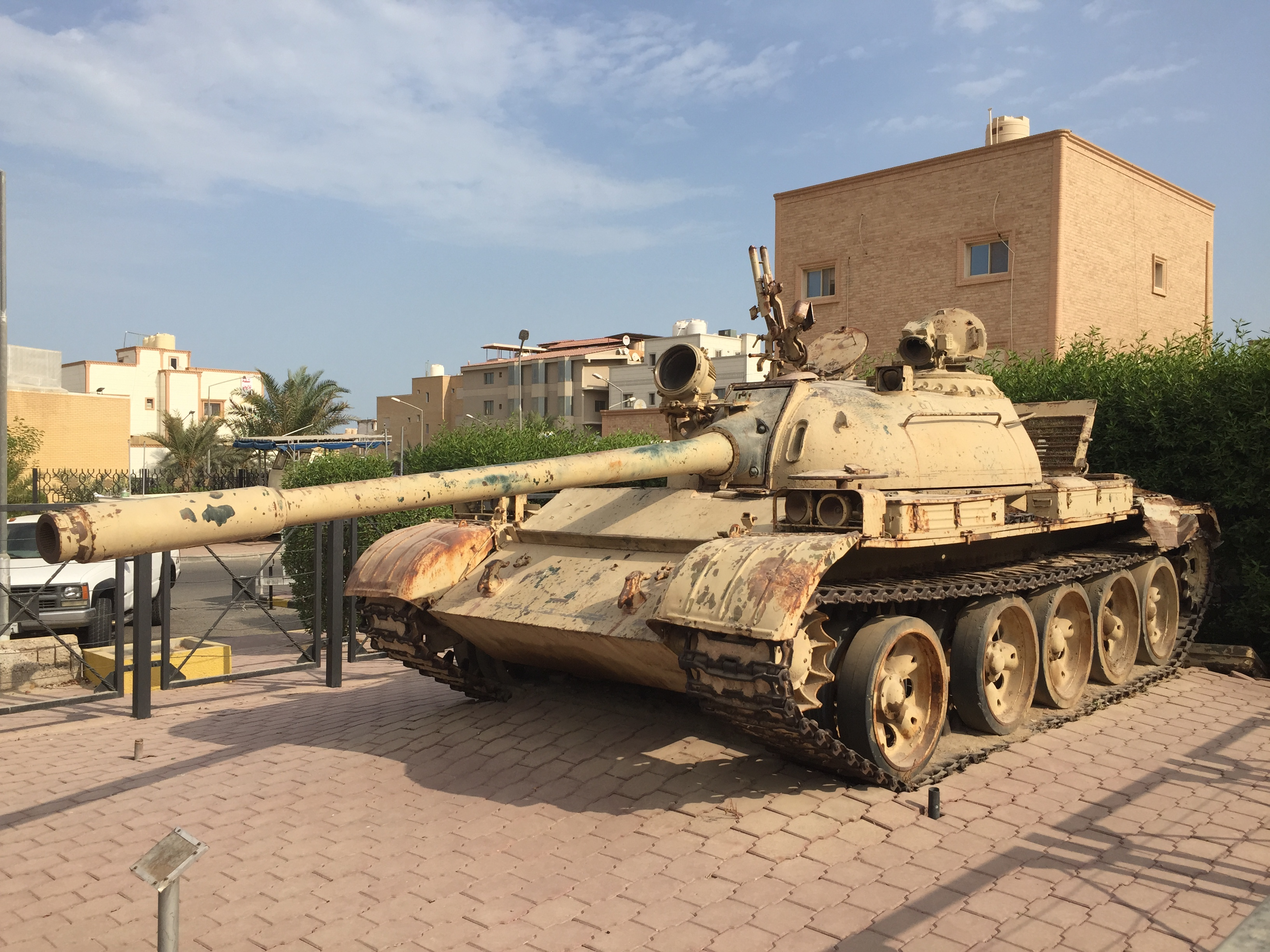 Iraqi tank that was used in battle 24 Feb 1991